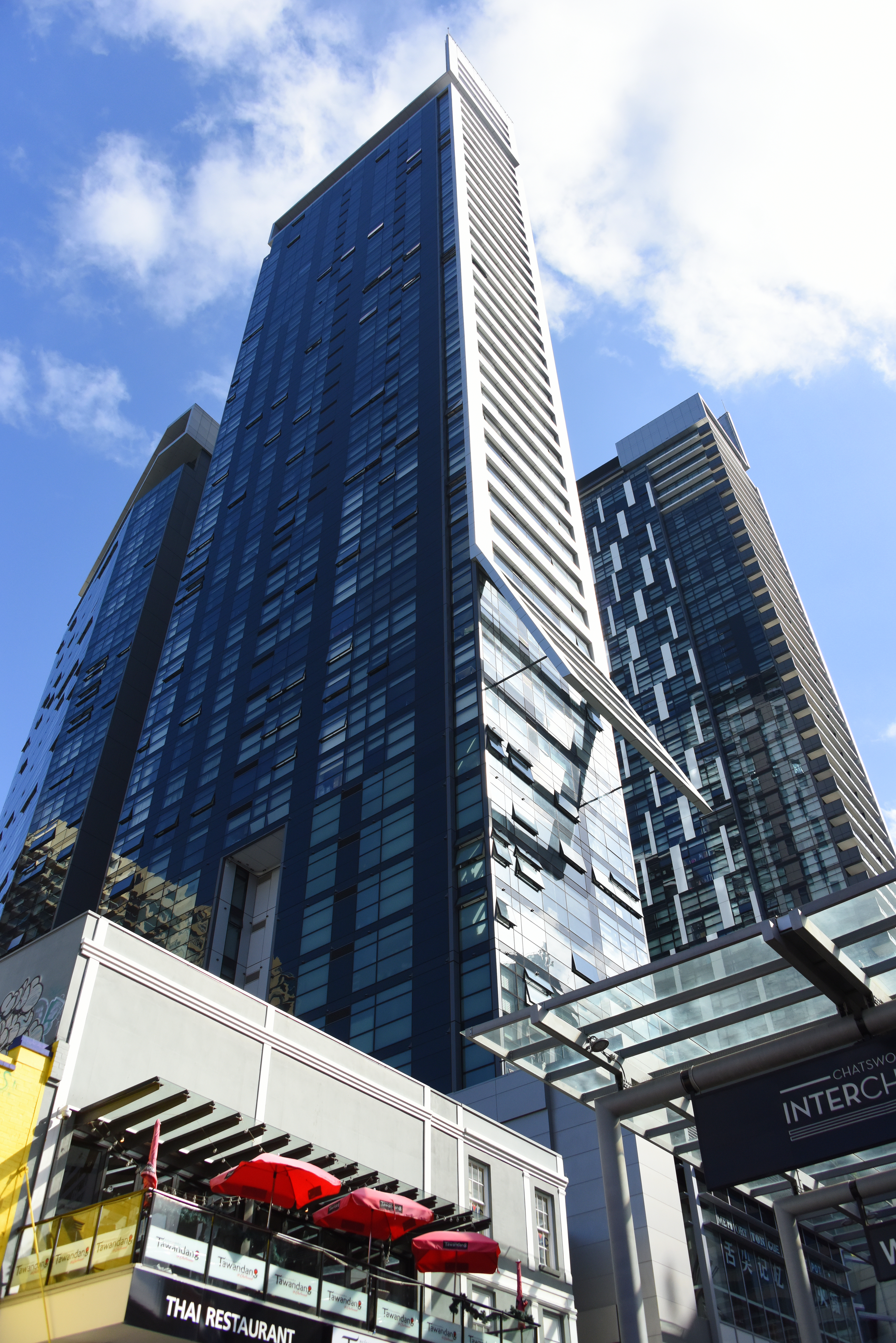 Apartment building, Chatswood, Sydney